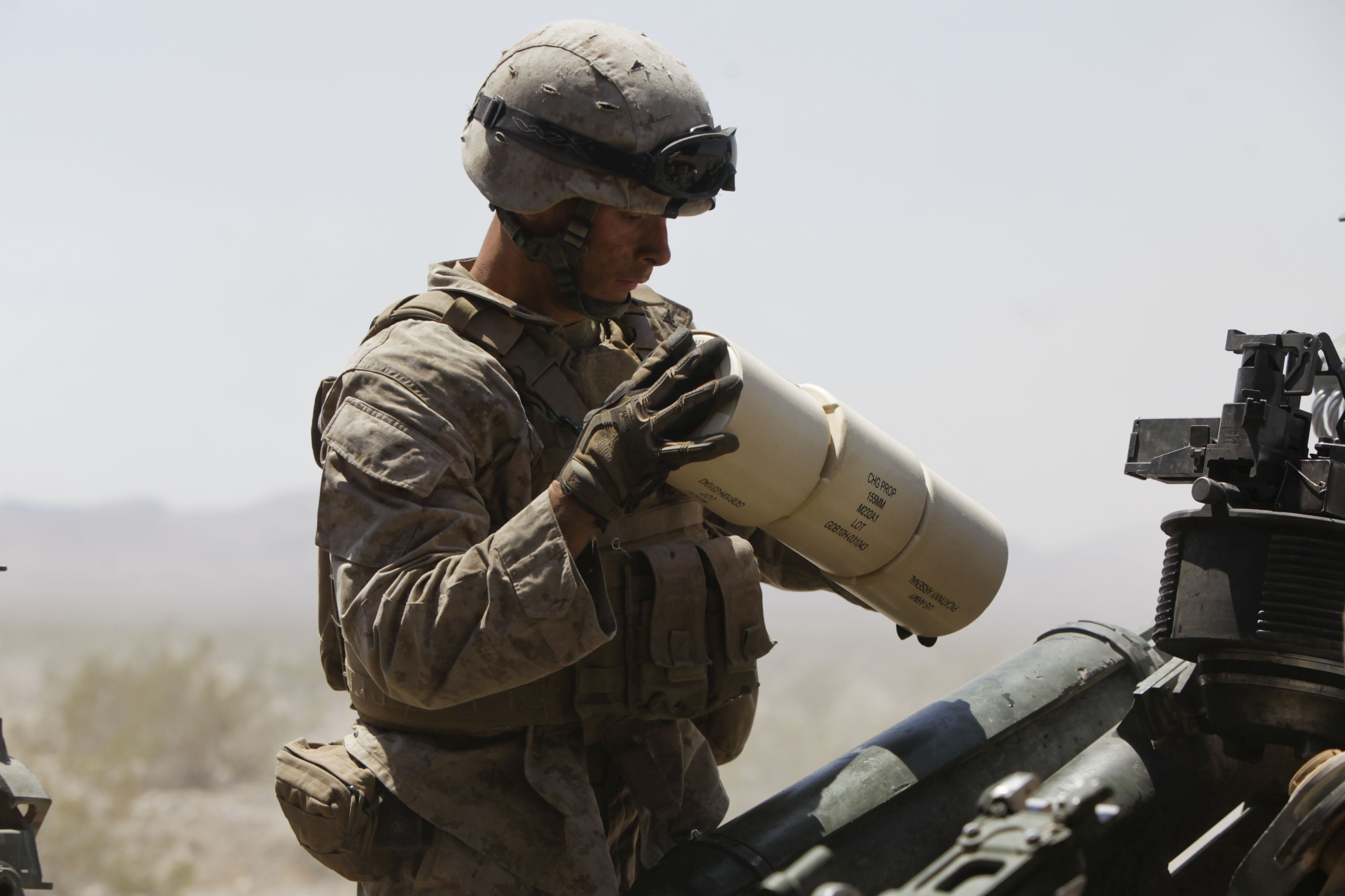 U.S. Marine Corps Lance Cpl. Christopher Semenske, a field artillery cannoneer with Golf Battery, 2nd Battalion, 11th Marine Regiment, loads charges into an M777 towed 155 mm howitzer during exercise Desert Scimitar May 4, 2013, at Marine Corps Air Ground Combat Center Twentynine Palms, Calif. Desert Scimitar was conducted to allow 1st Marine Division to sustain their ability to plan and execute command and control functions in both offensive and defensive scenarios.